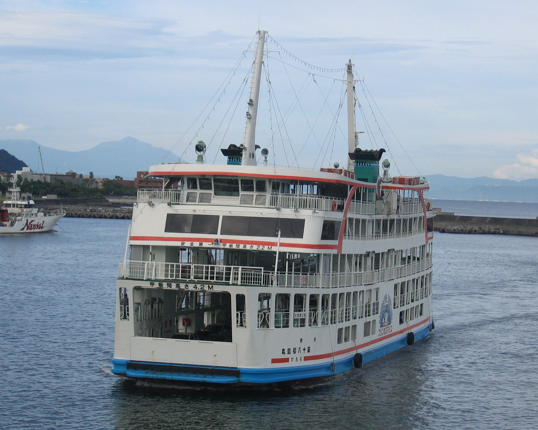 桜島フェリー(旧鹿児島県桜島町) Sakurajima Ferry (Former Sakurajima Town, Kagoshima Prefecture). Taken on July 9, 2004